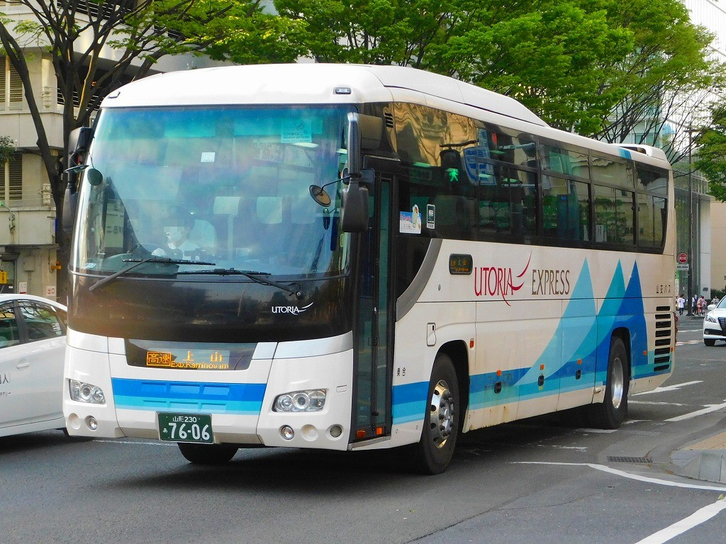 Yamako bus Highwaybus "Sendai-Kaminoyama"